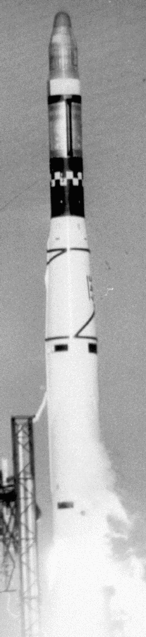 Launch of Corona 49 satellite on-board of Thor Agena D launch vehicle (Aug. 29, 1962)